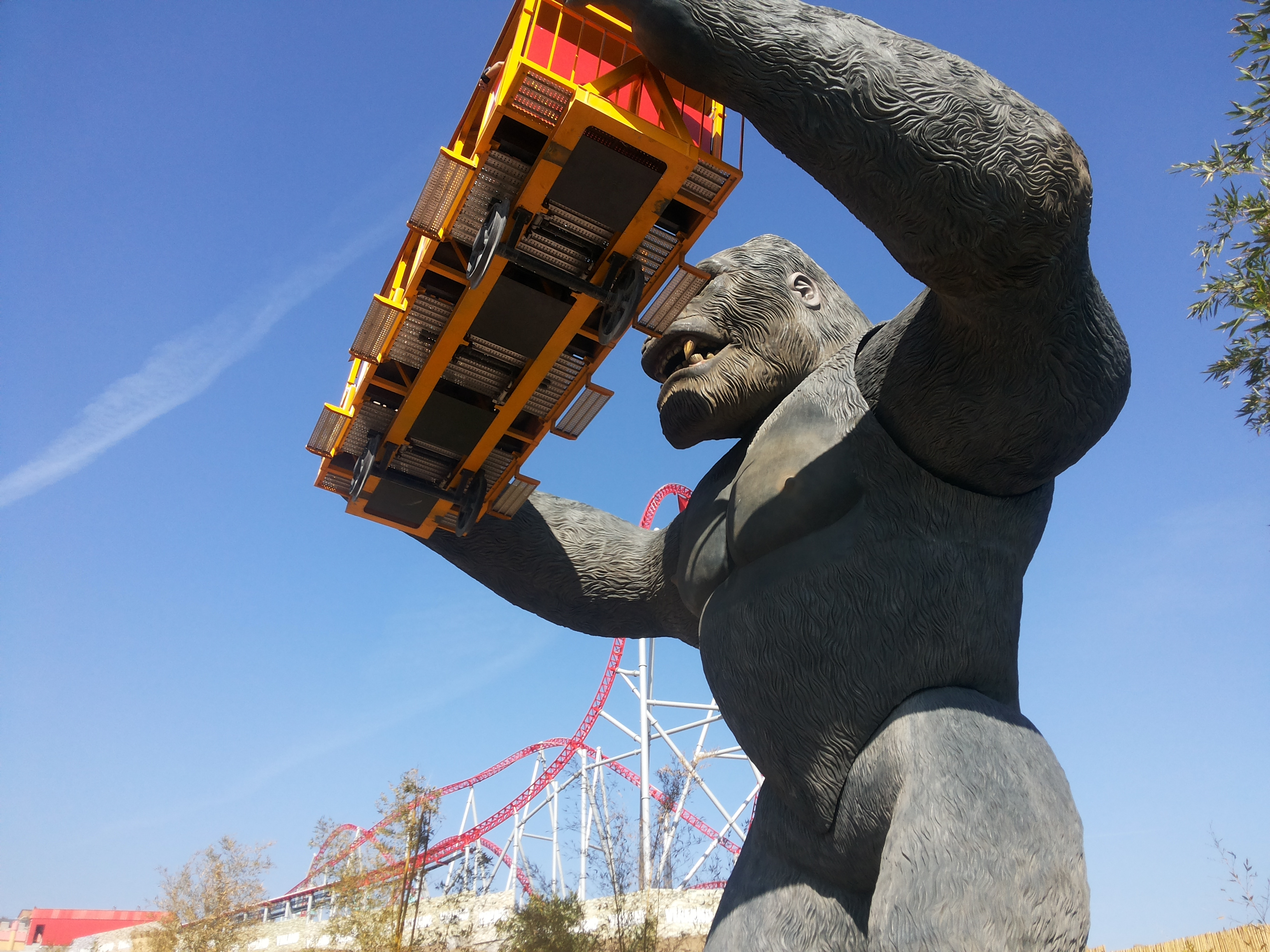 Vialand Theme Park, Istanbul, Turkey.